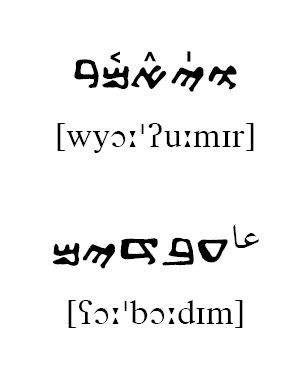 Example of Samaritan Vocalization